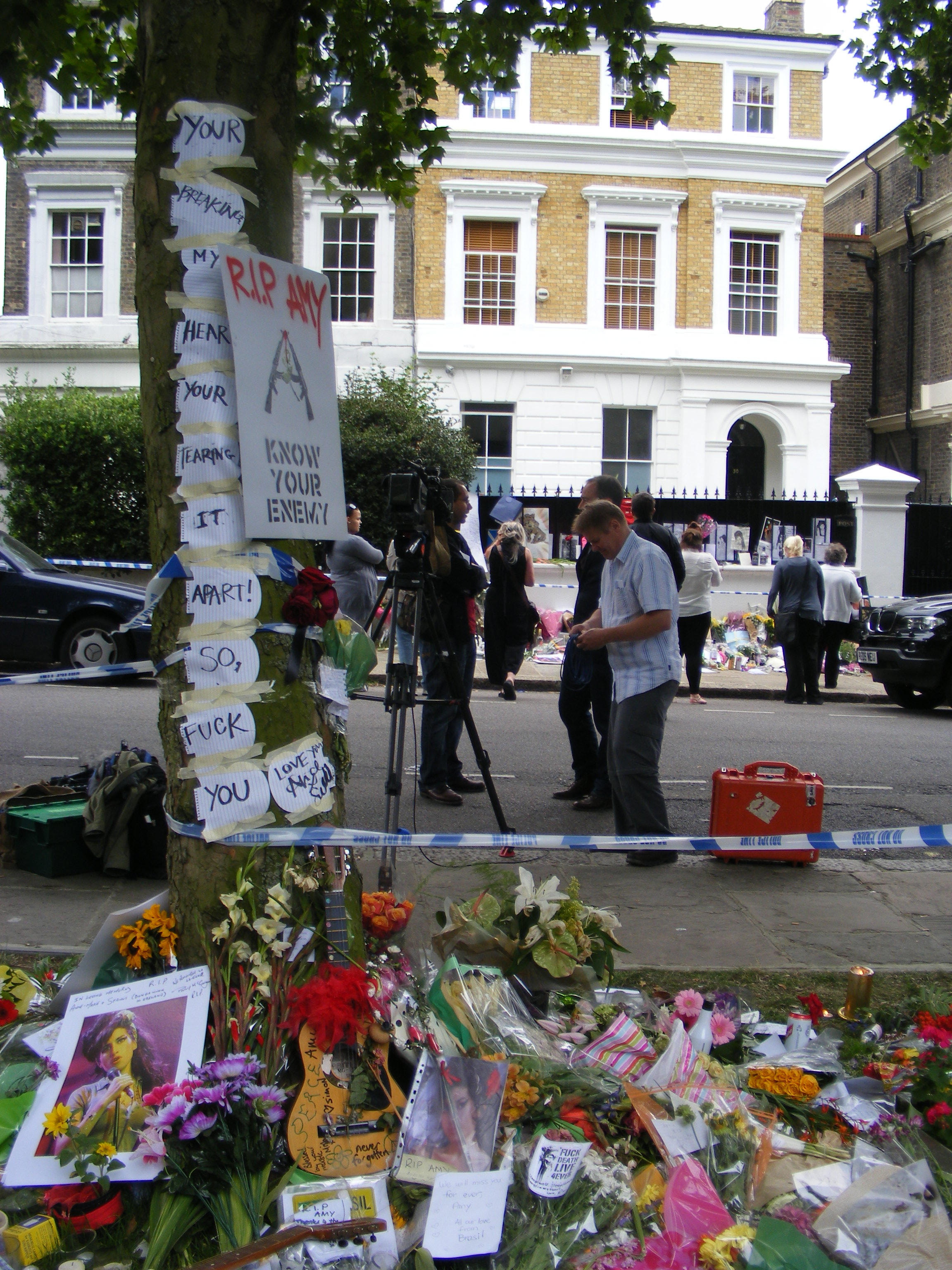 Amy Winehouse Memorial